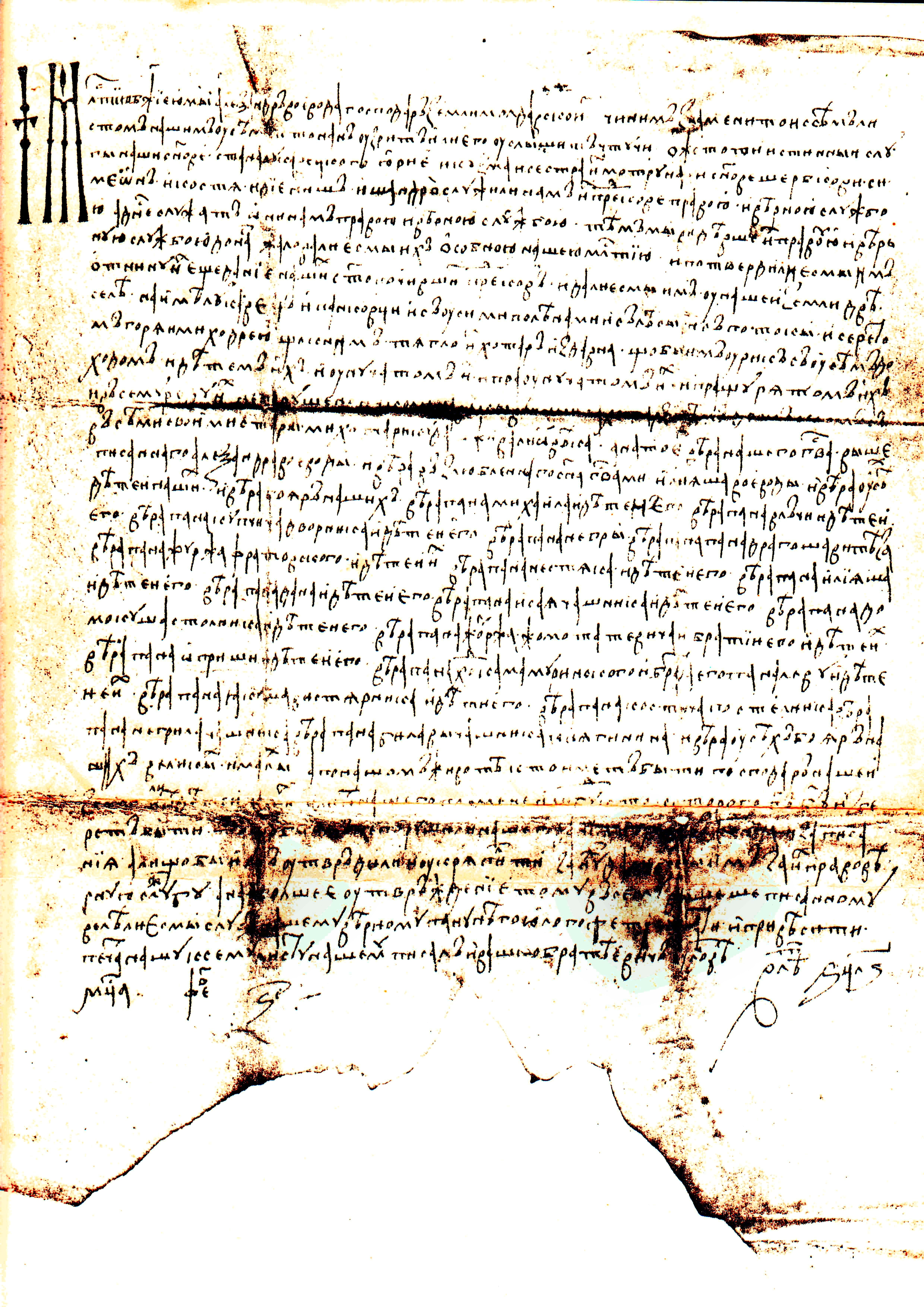 Document of the deed for the Wassilko family given by Prince Alexander the Good from Moldavia in 1428.